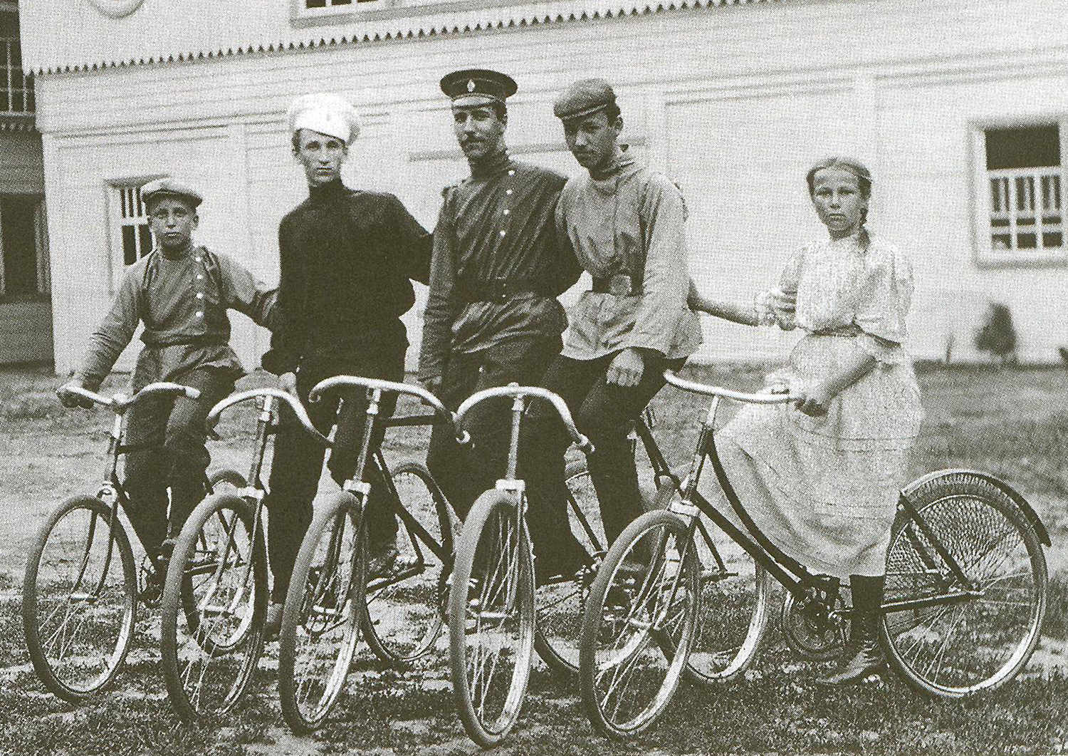 Bike was pretty expensive and exotic at that time.